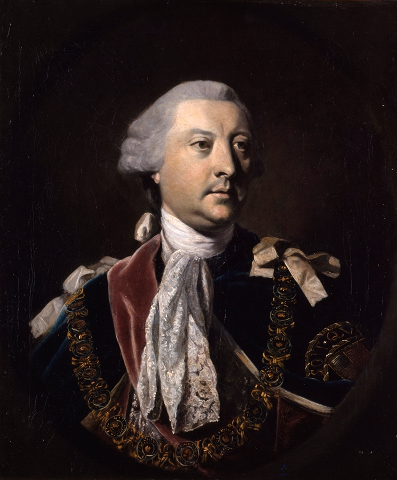 Portrait of George Montagu-Dunk, 2nd Earl of Halifax (1716-1771)